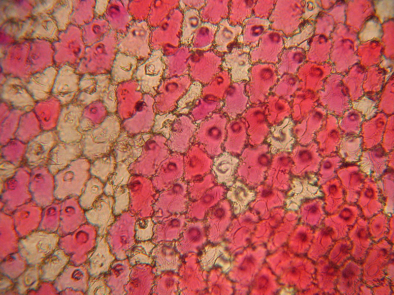 microscopic image of a rose petal showing the plant cells Original description: much better version of the Rose petal I took some month ago. Best view at original size!